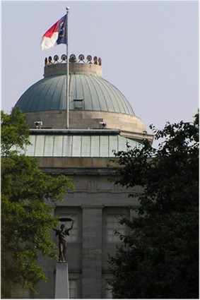 NC capitool Raleigh eigen foto